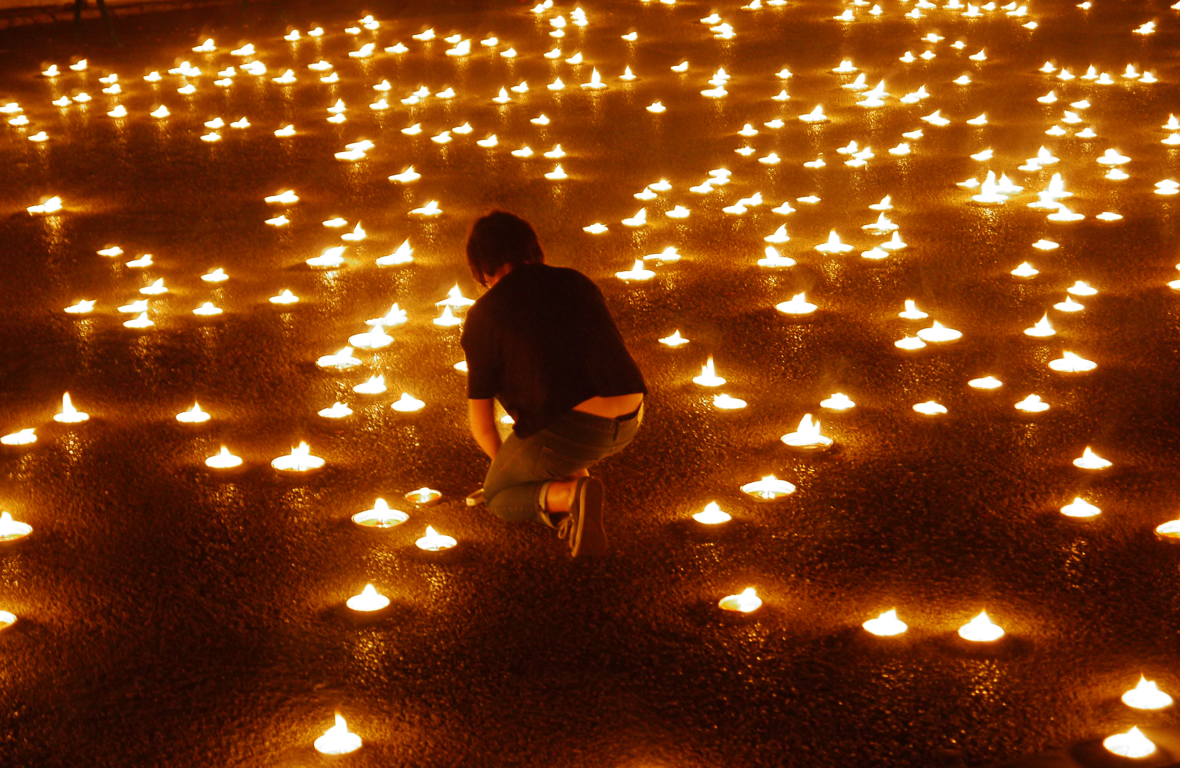 RENAUD AUGUSTE-DORMEUIL I WILL KEEP A LIGHT BURNING, 2011 SQUARE LOUISE MICHEL